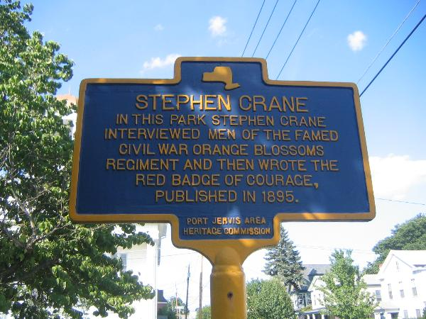 Historical maker in Port Jervis, New York that points out the park that American author Stephen Crane wrote parts of The Red Badge of Courage.